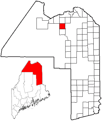 Adapted from U.S. Census Bureau maps (American FactFinder) and Wikipedia's ME county maps by Bumm13.